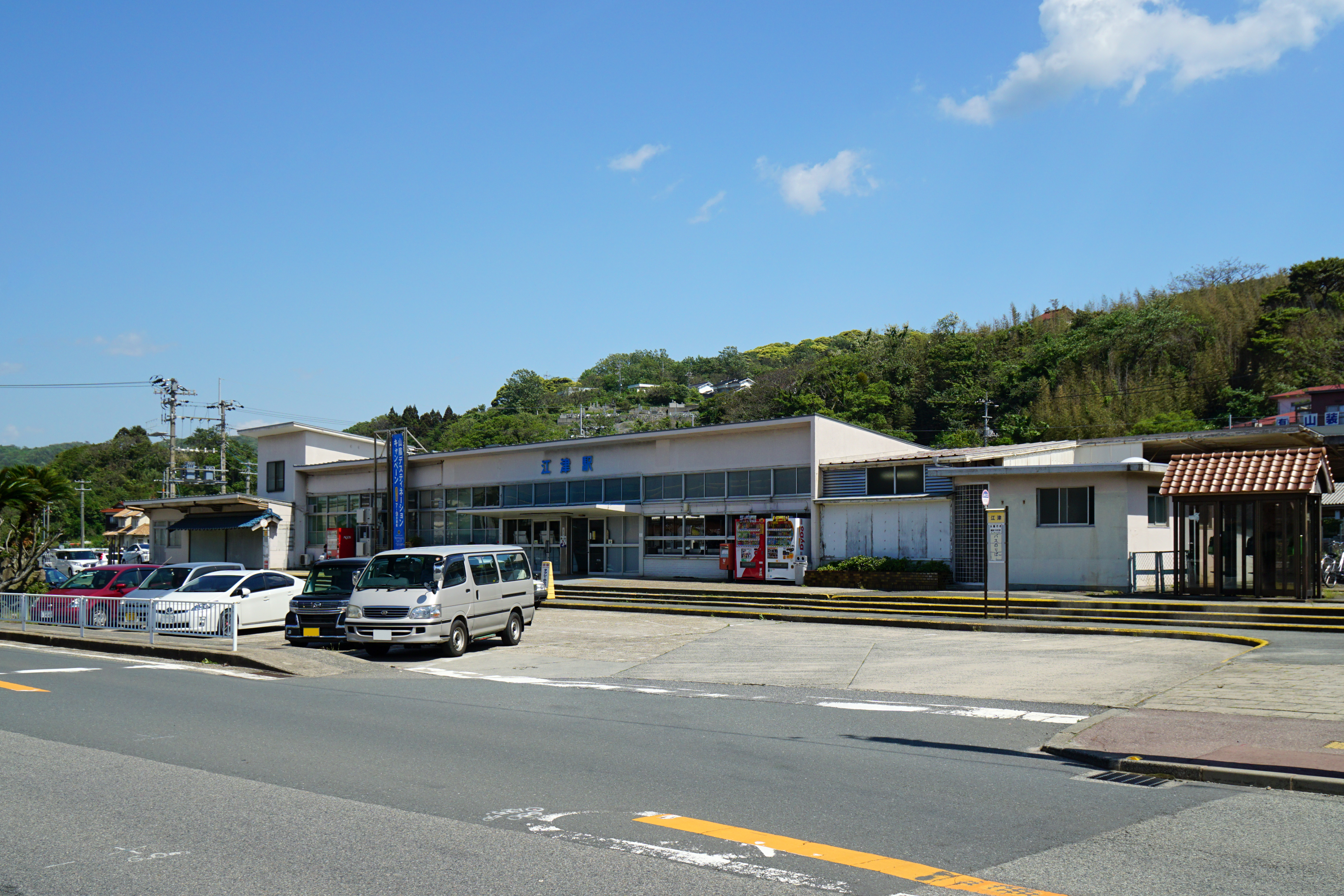 Gōtsu Station, Gotsu, Shimane prefecture, Japan